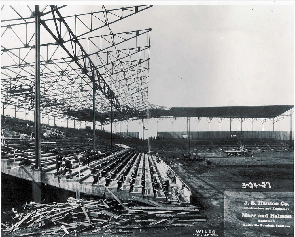 Sulphur Dell, a minor league baseball park in Nashville, Tennessee, shown in 1927 when the ballpark was reoriented so that home plate would face northeast